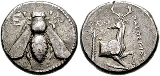 Ionia, Ephesos. Circa 387-295 BC. AR Tetradrachm (23mm, 14.78 g). Parthenios (ΠΑΡΘΕΝΙΟΣ), magistrate. Bee with straight wings, flanked by Ε Φ (e ph), first letters of name of the city Forepart of a stag right; date palm behind.